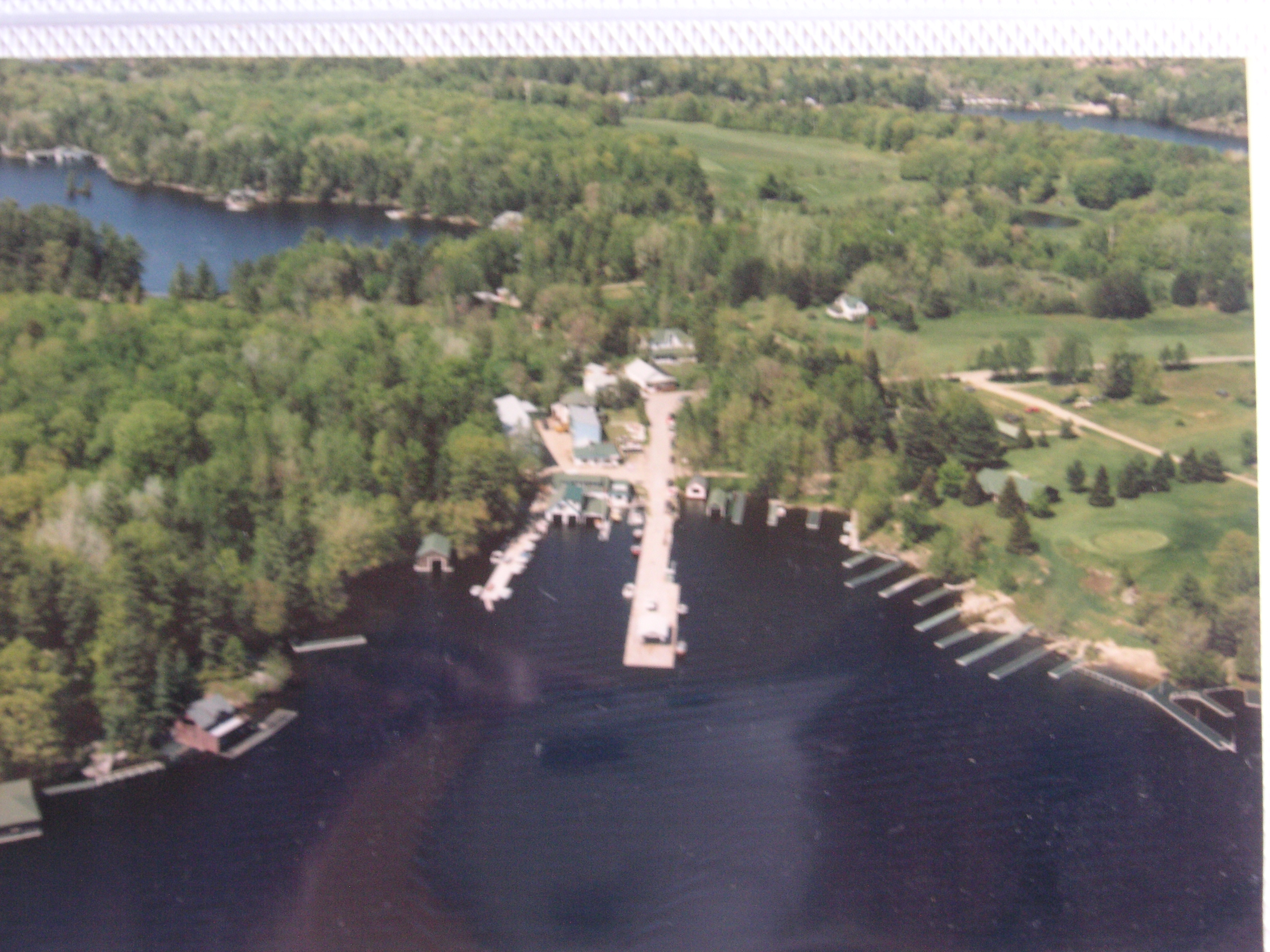 An aerial photograph of Beaumaris Ontario.